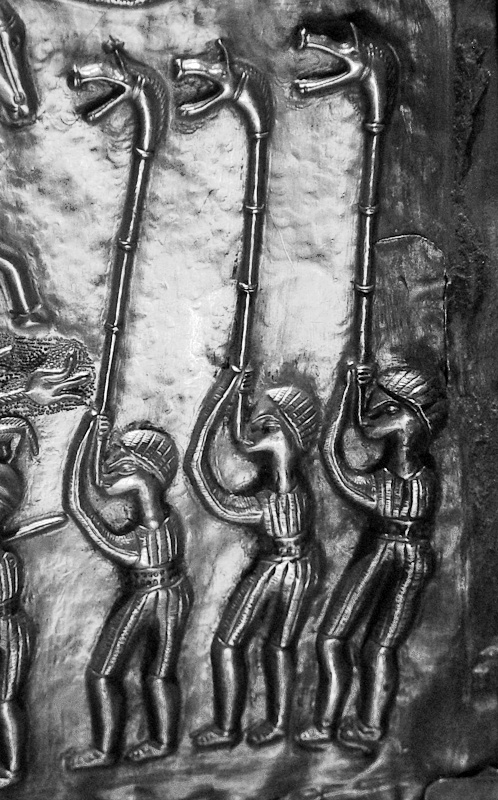 Detail of antlered figures with animal-headed horns depicted on the cauldron found at Gundestrup, Himmerland, Jutland, Denmark. The Gundestrup cauldron is housed at the National Museum of Denmark.